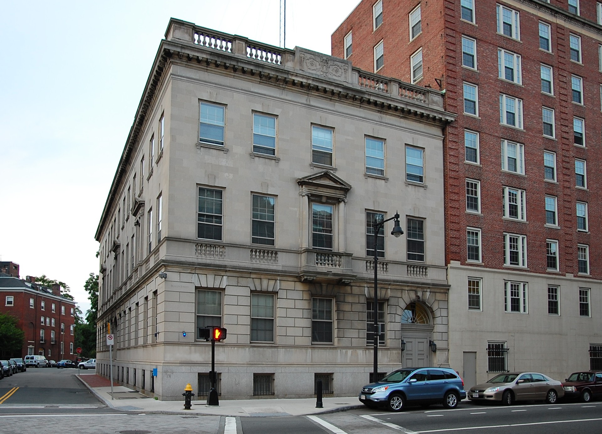 Myles Standish Annex, Boston University dormitory in Kenmore Square.